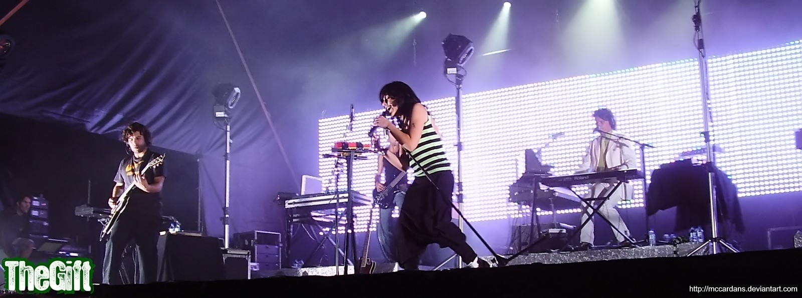 The Gift Live @ Oeiras. Photo By Alexandre Cardana